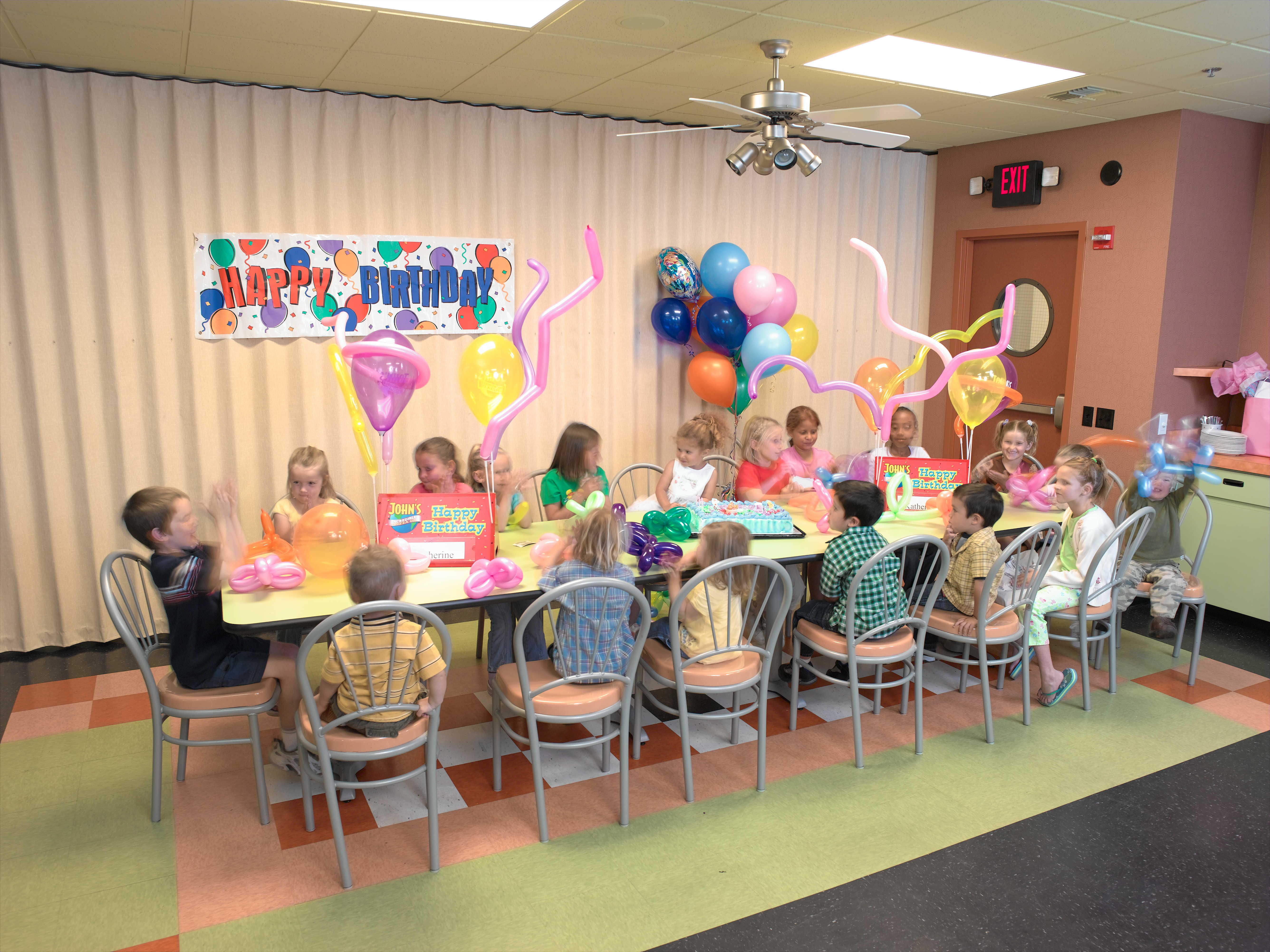 Johns Inc Birthday_party